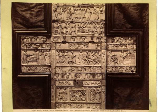 The Brescia Casket or Lipsanotheca (in Italian often just the Lipsanoteca) is an ivory box, perhaps a reliquary, from the late 4th century, which is now in the Museo di Santa Giulia at San Salvatore in Brescia, Italy. It is a virtually unique survival of a complete Early Christian ivory box in generally good condition. The 36 subjects depicted on the box represent a wide range of the images found in the evolving Christian art of the period, and their identification has generated a great deal of art-historical discussion, though the high quality of the carving has never been in question. At some point it was dismantled and the panels displayed laid out flat on a board forming a cross shape with a frame. The box was restored and re-assembled in 1928. Autore: Alinari, Fratelli (1852/ ), fotografo principale Luogo e data della ripresa: Brescia (BS), secondo quarto XX Materia/tecnica: albumina/carta Misure: 24 x 30 Note: La Lipsanoteca è stat ripristinata nella sua forma di cofanetto nel 1928. Collocazione: Milano (MI), Raccolte Grafiche e Fotografiche del Castello Sforzesco. Civico Archivio Fotografico, RI 2727